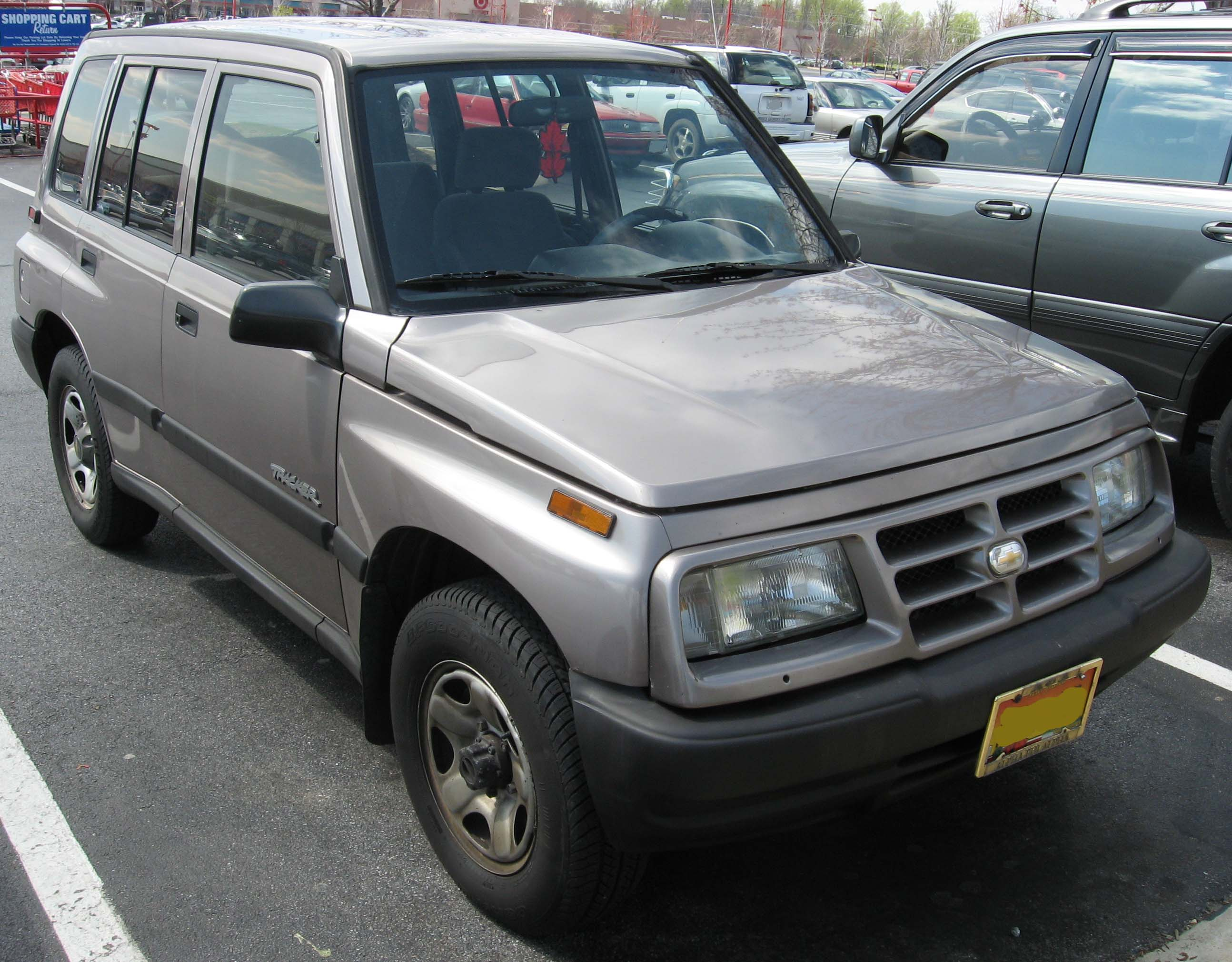 1998 Chevrolet Tracker photographed in USA.